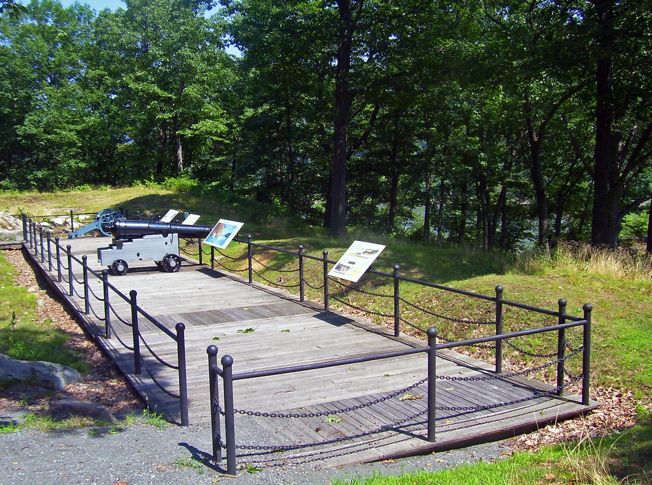 Site of cannon platform at Fort Montgomery, NY, USA, a National Historic Landmark on the Hudson River